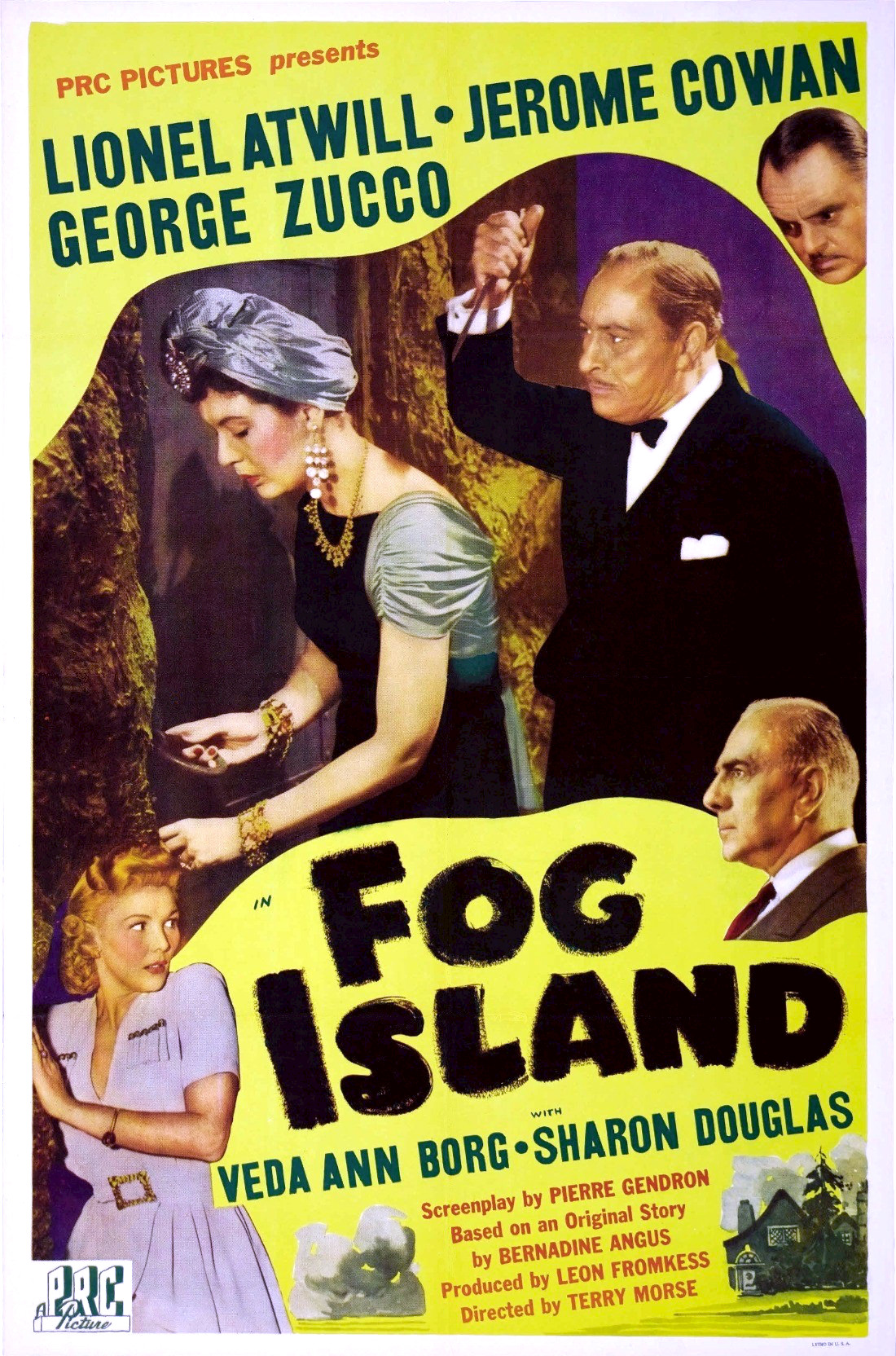 Poster for the 1945 film Fog Island. The item has no copyright markings on it as can be seen in the links above. At lower right is Litho in USA.